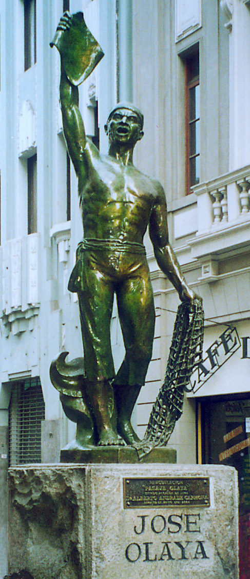 The staty of this Prócer Chorillano (Heroe from Chorrillos)